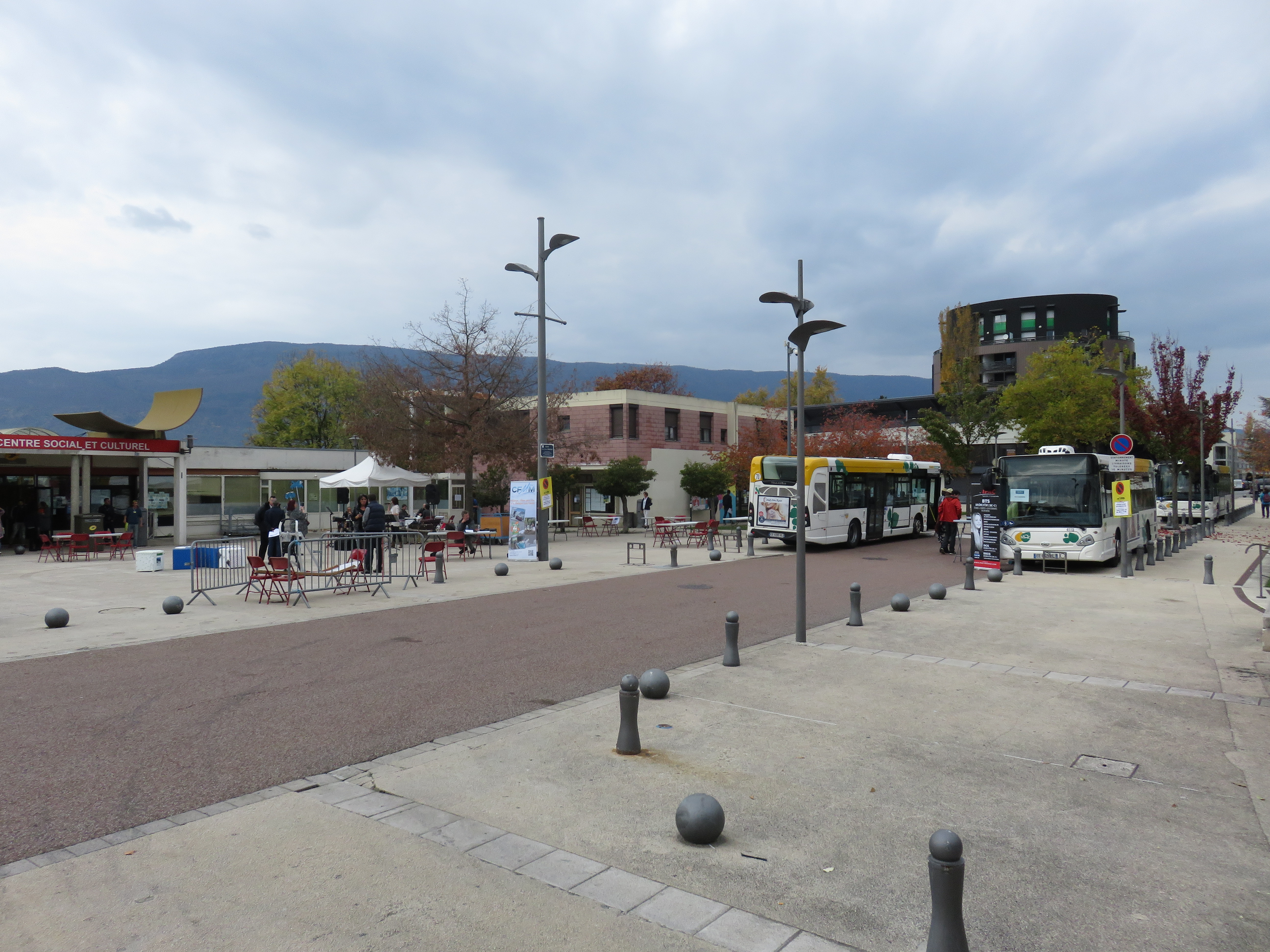 The forum Job Station, in the Avenue du Pré de l’Âne (Hauts-de-Chambéry, France), on October 27, 2017.